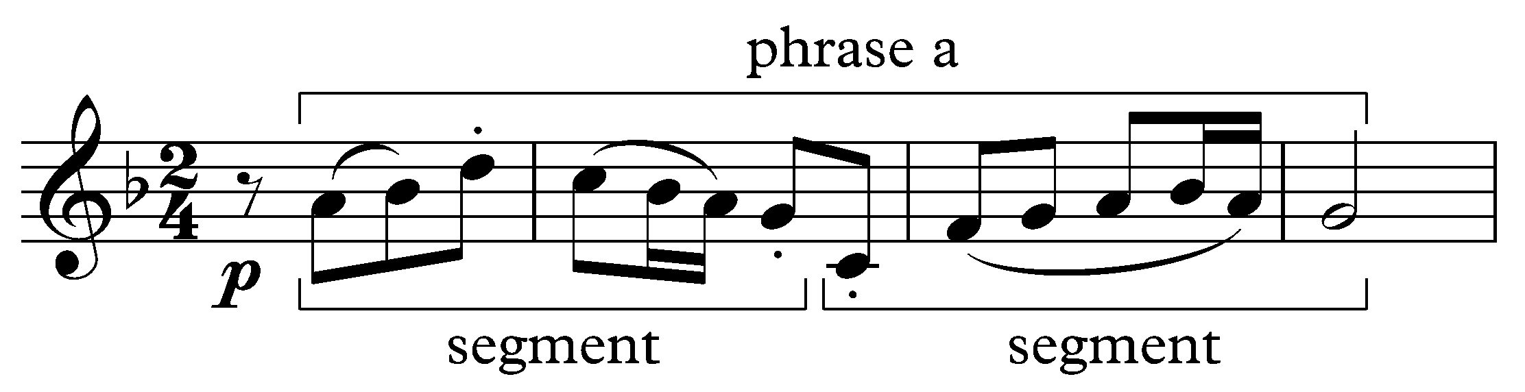 Phrase segments in Beethoven Opus 68 I